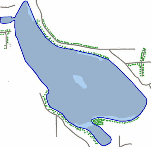 Created by user